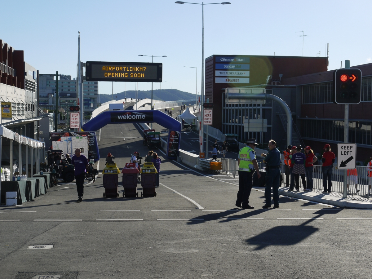 Brisbane Airportlink - Fortitude Valley On Ramp taken during opening walkthrough ('Bridge and Tunnel Experience')